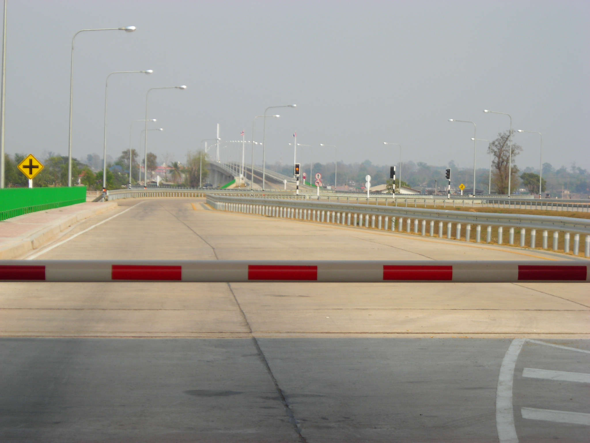 Second Thai–Lao Friendship Bridge, Thai side